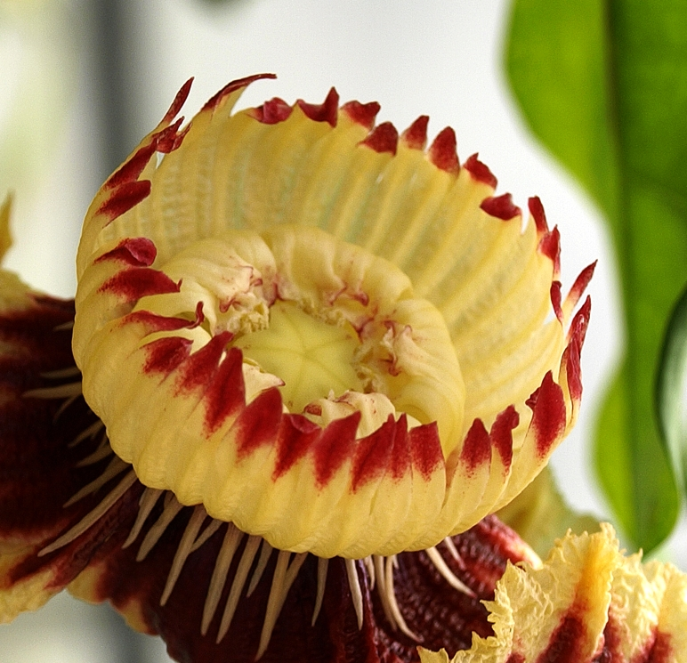 More flowers from this strange tree. The calyx is not visible; the corolla is the reflexed outer whorl. The other bits are modifications and appendages on the stamens. A large flat stigma is visible in the center. Biology Dept. greenhouse, Florida International University, Miami, Florida, USA. Biology Dept. greenhouse, Florida International University, Miami, Florida, USA.